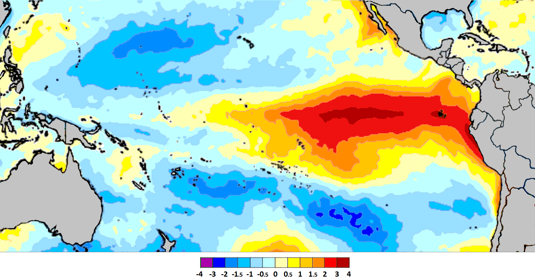 Chart of abnormal Pacific ocean surface temperatures [ºC] observed during the El Niño in January 1983.